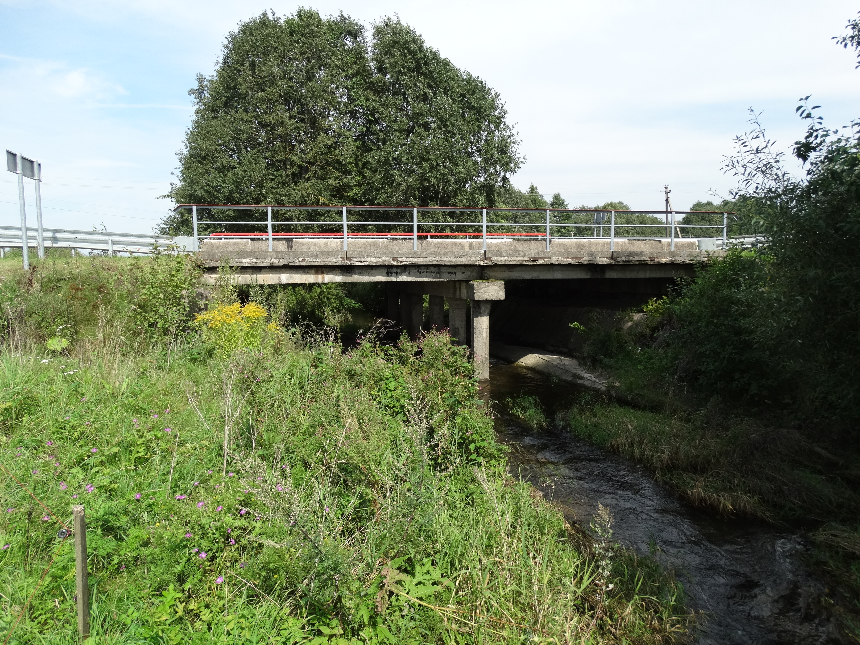 Mituva river, Jurbarkas district Lithuania